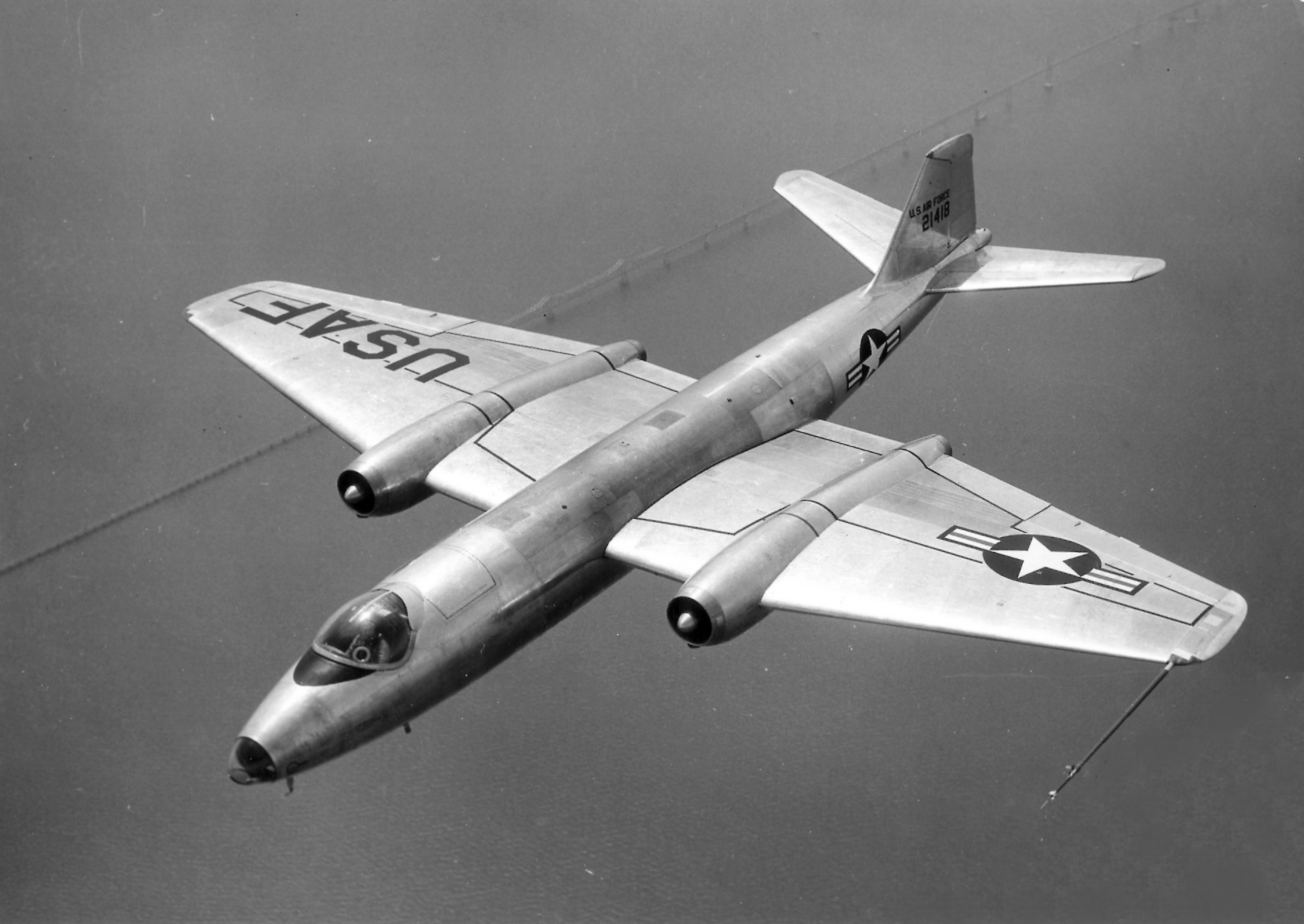 A U.S. Air Force Martin B-57A Canberra (s/n 52-1418, first production model), in flight over Chesapeake Bay Bridge, Maryland (USA), in 1953.